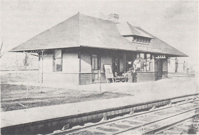 Cincinnati, Lebanon and Northern Railway's Hopkins Avenue (Norwood) depot, early 1890s; note the third rail for standard-gauge Ohio and North Western Railroad trains